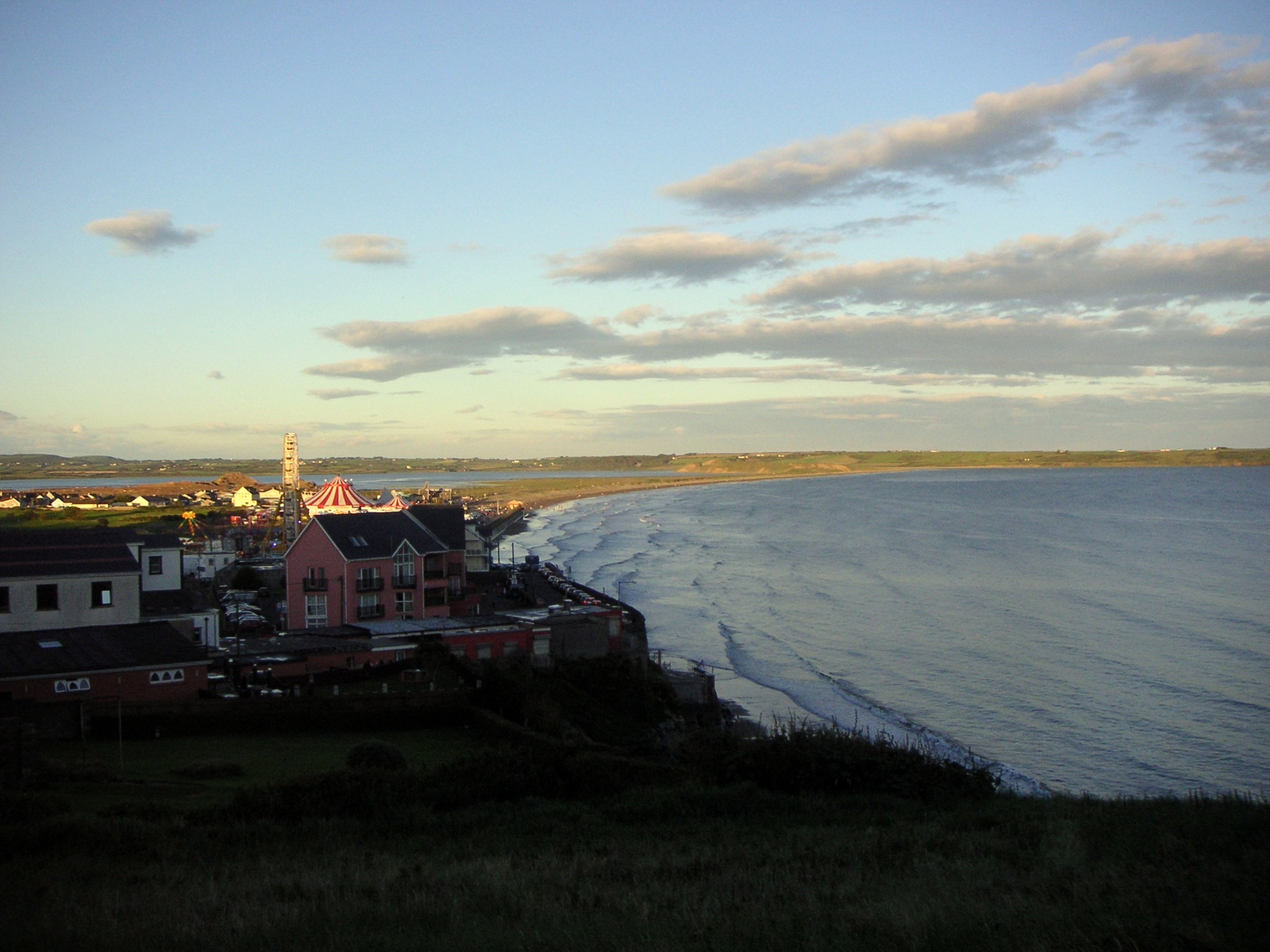 View of the strand in Tramore in the evening